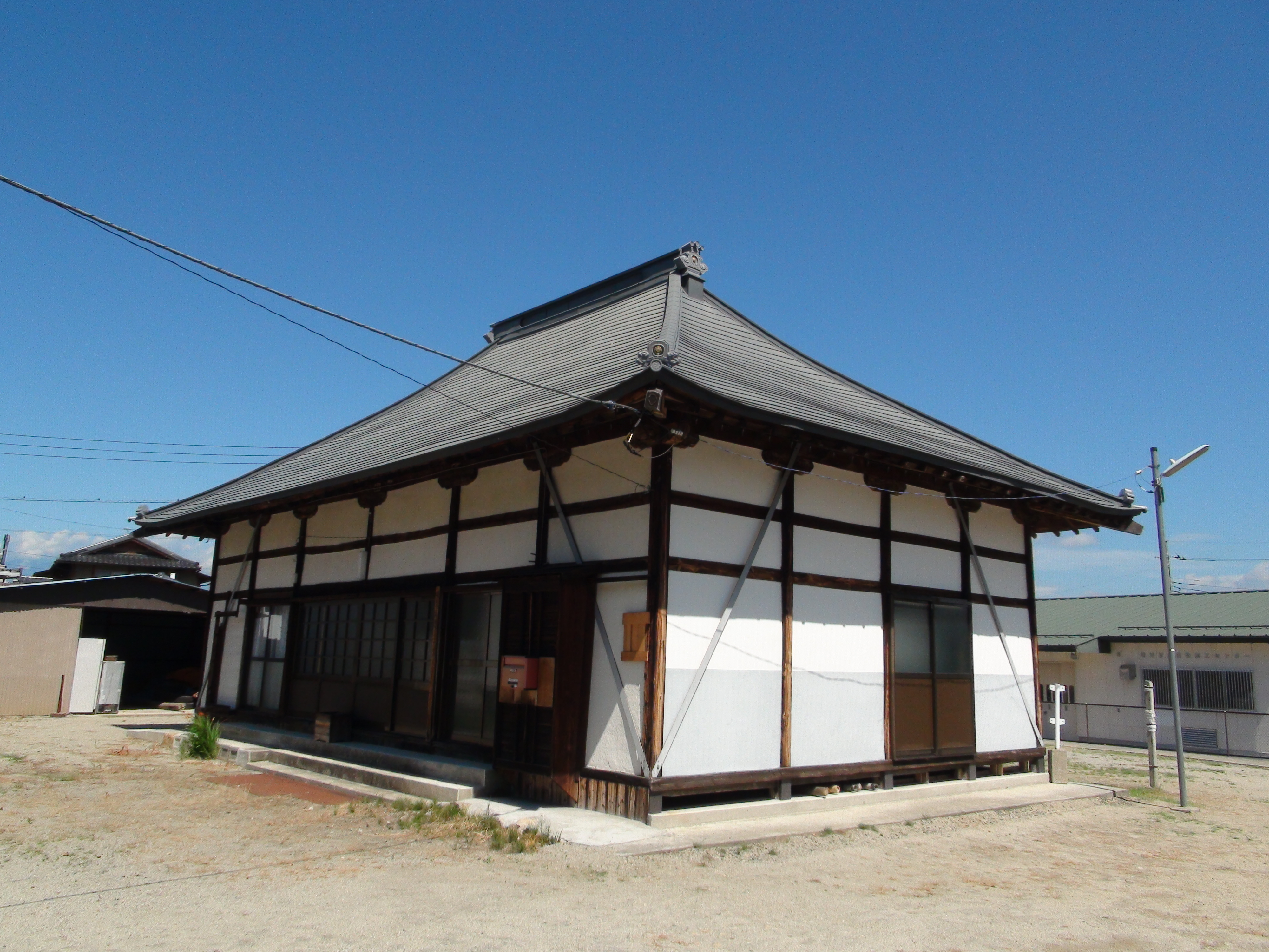 Daisekiji Temple Fuefuki-city